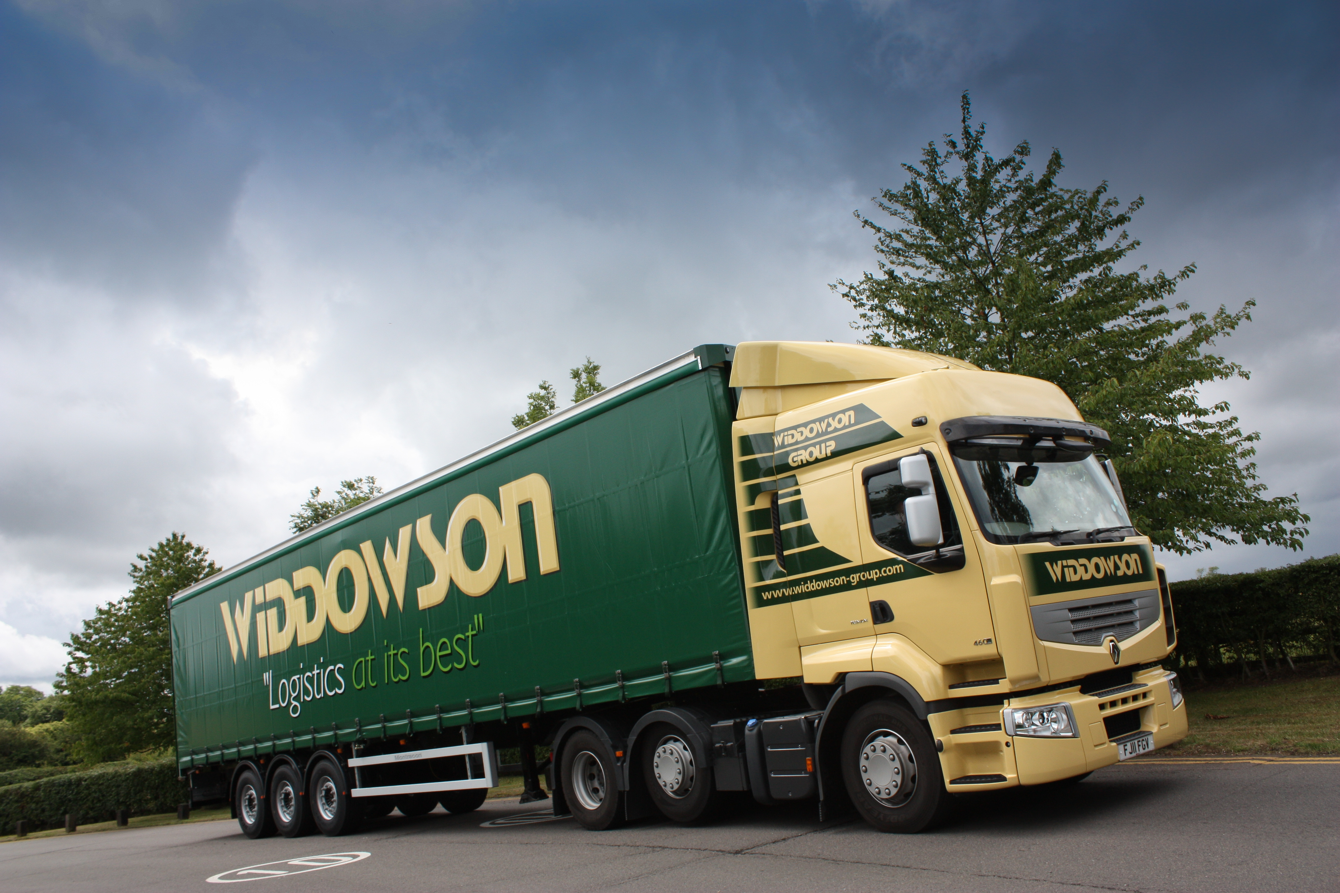 A photo of a Widdowson Group Renault Premium 460 (on demonstration) attached to a Montracon trailer in 08 July 2011.